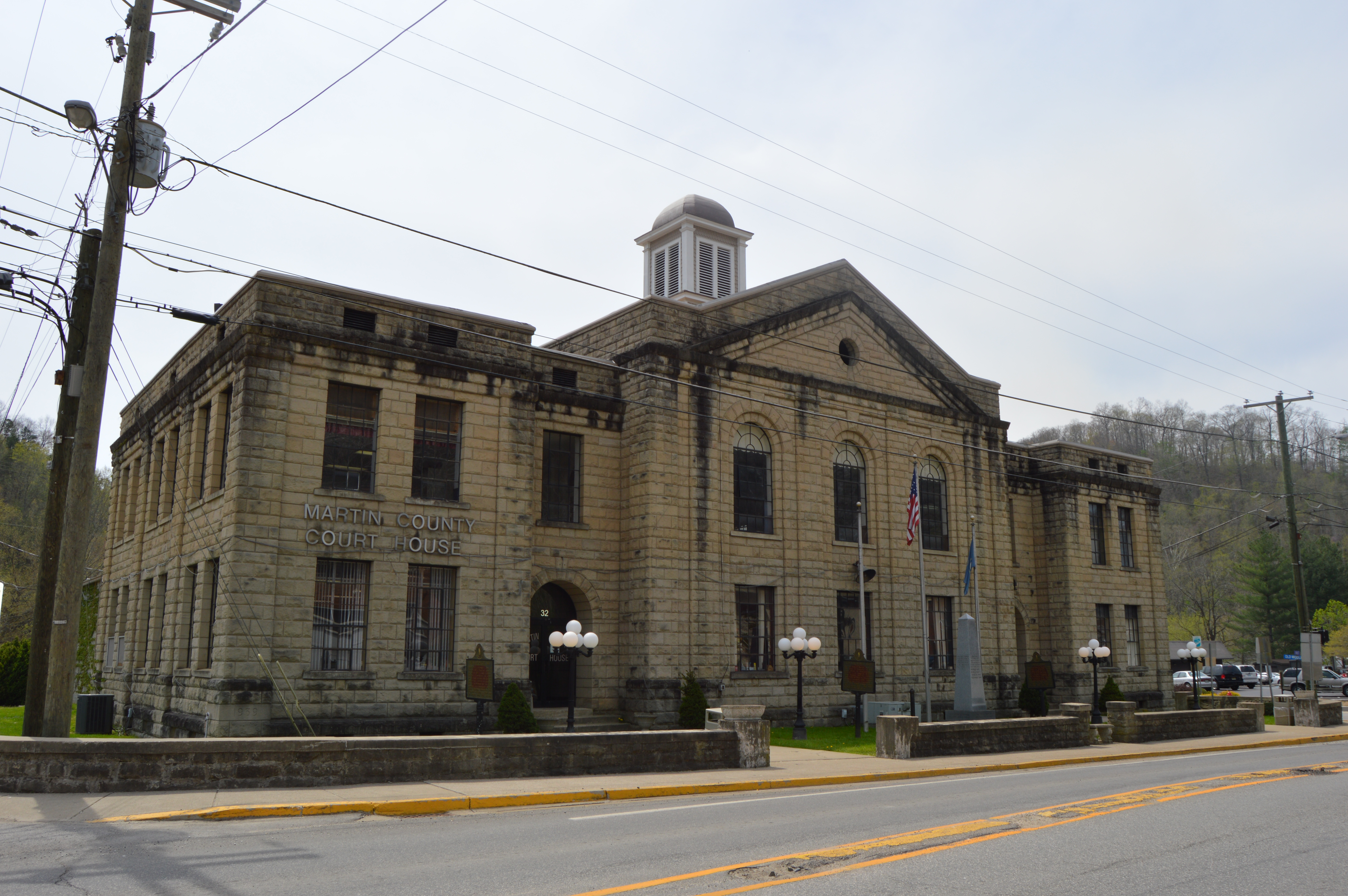 Front and eastern side of the Martin County Courthouse, located along Kentucky Routes 3/40 on Courthouse Square in Inez, Kentucky, United States. Built in 1938, it is listed on the National Register of Historic Places.